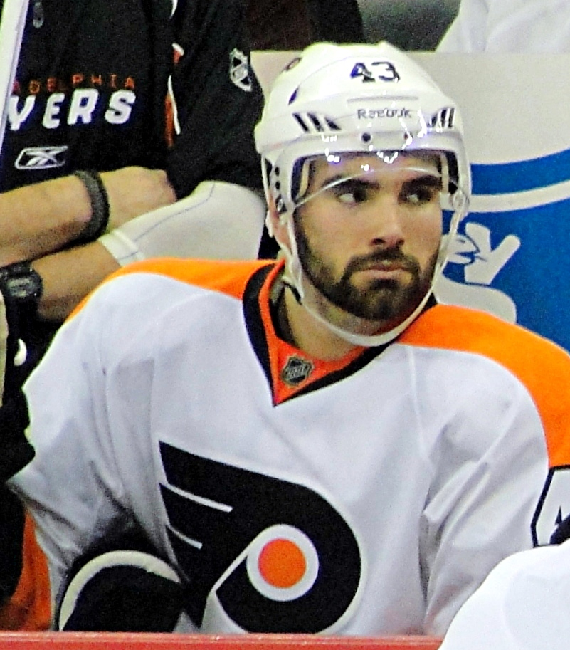 Marc-André Bourdon of the Philadelphia Flyers during a game against the Pittsburgh Penguins, December 29, 2011 at Consol Energy Center in Pittsburgh, PA.